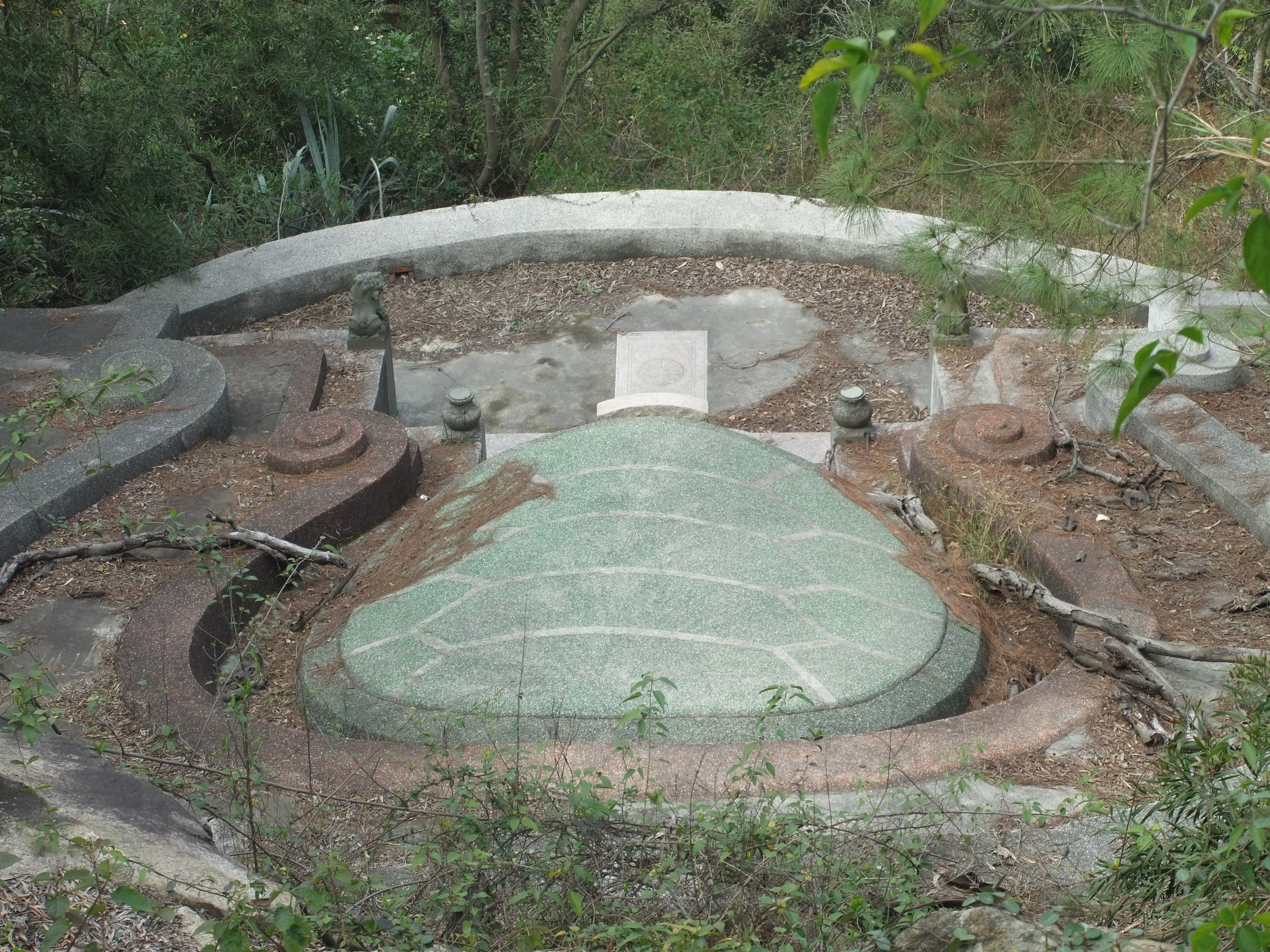 Lingshan Islamic Cemetery (Lingshan Park) in Quanzhou..